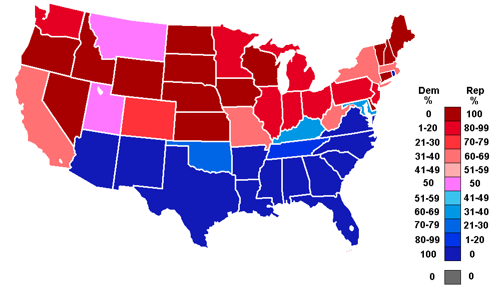 Map representing the composition of the US House of Representatives at the beginning of the 80th Congress